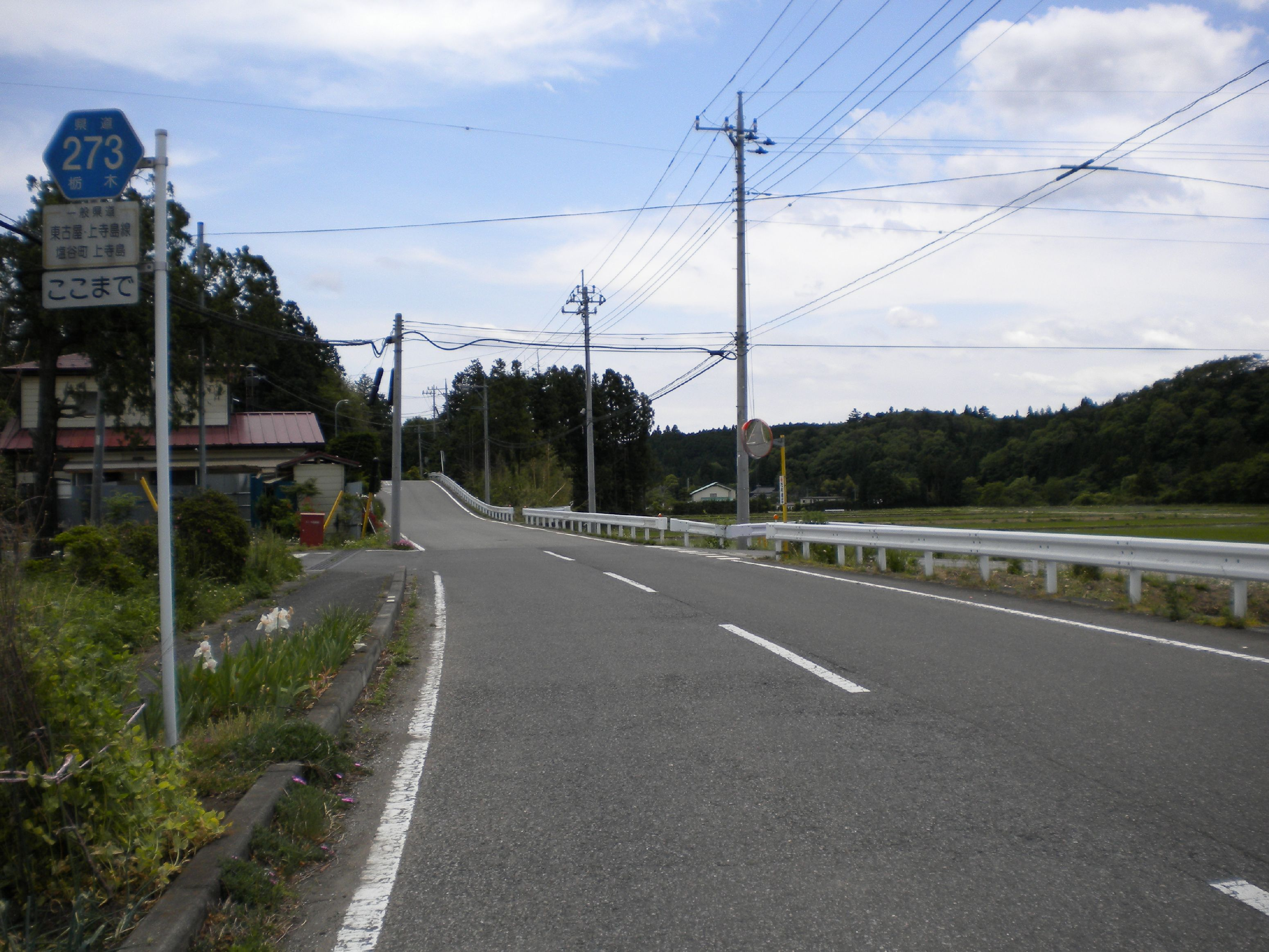 The Tochigi Prefectural Road Route 273 in Kamiterashima, Shioya Town